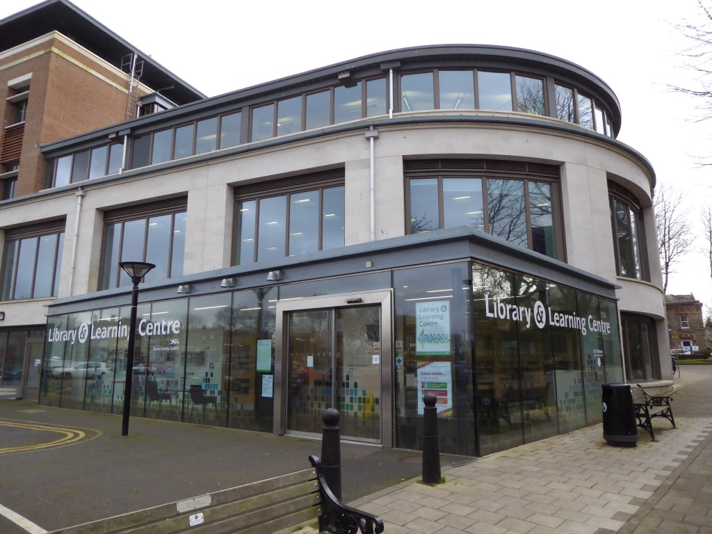 Visited by members of the Taskforce team. Photo credit: Julia Chandler/Libraries Taskforce